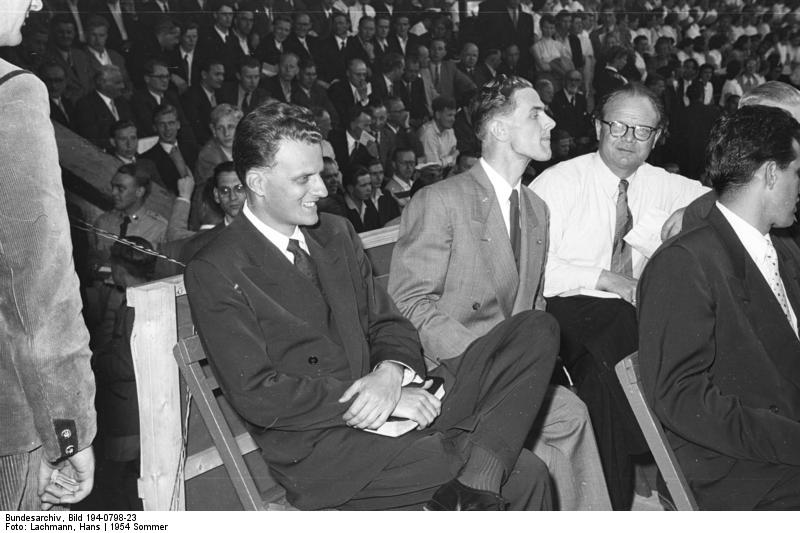 Billy Graham in Duisburg, Sommer 1954